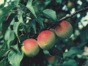 A picture of fruits of Ume (an origianl Japanese fruit tree) at harvest time.